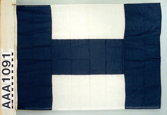 Killick Martin & Company initially used a House Flag or Maritime Flag to identify the companies vessels with two blue stripes and a wider white centre stripe.From 1868 however the design was changed by adding a vertical blue bar to form an ‘H’. The flag became known as ‘Killick’s H’ or the ‘Hungry H’.